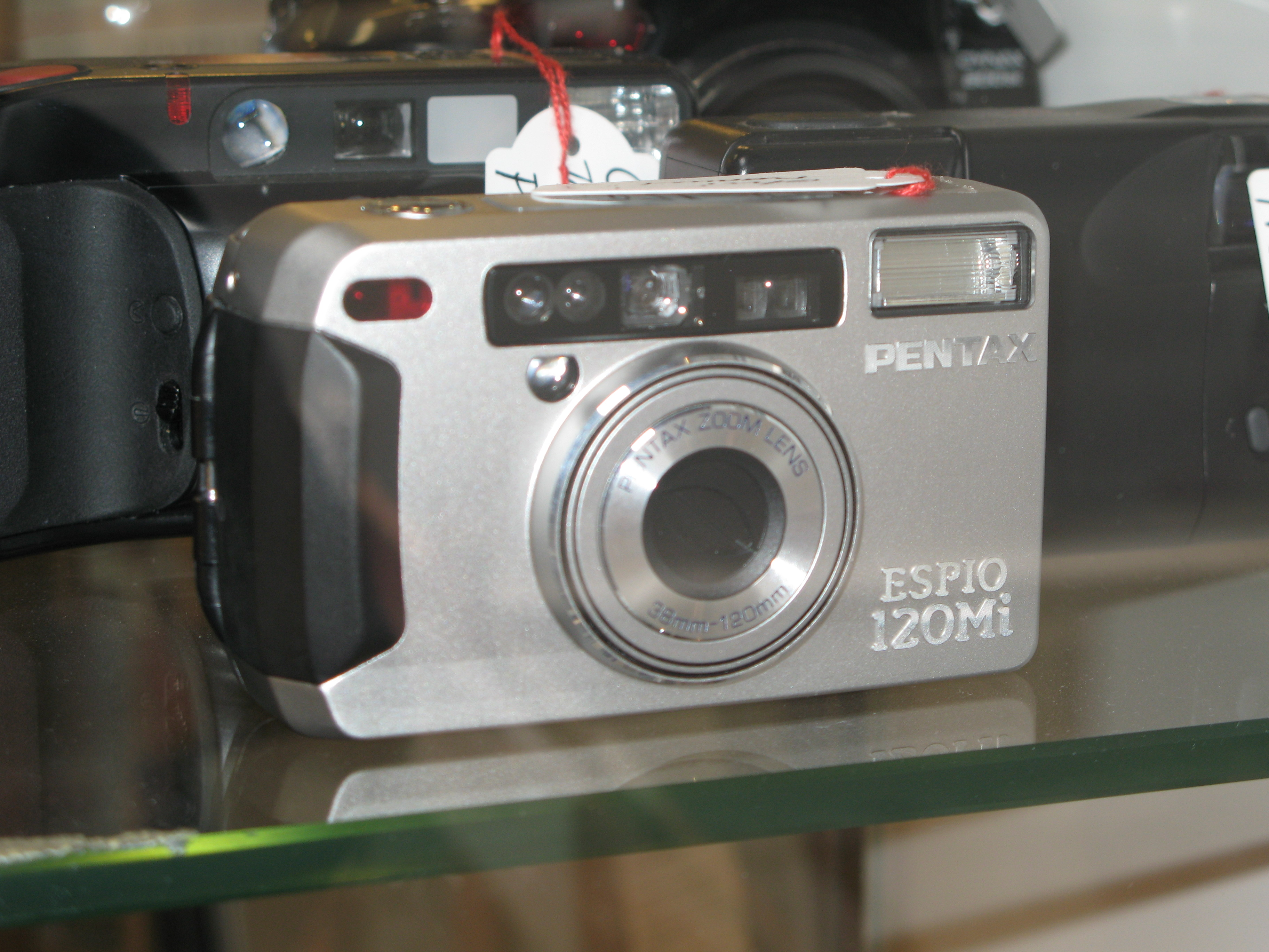 Pentax Espio 120 Mi